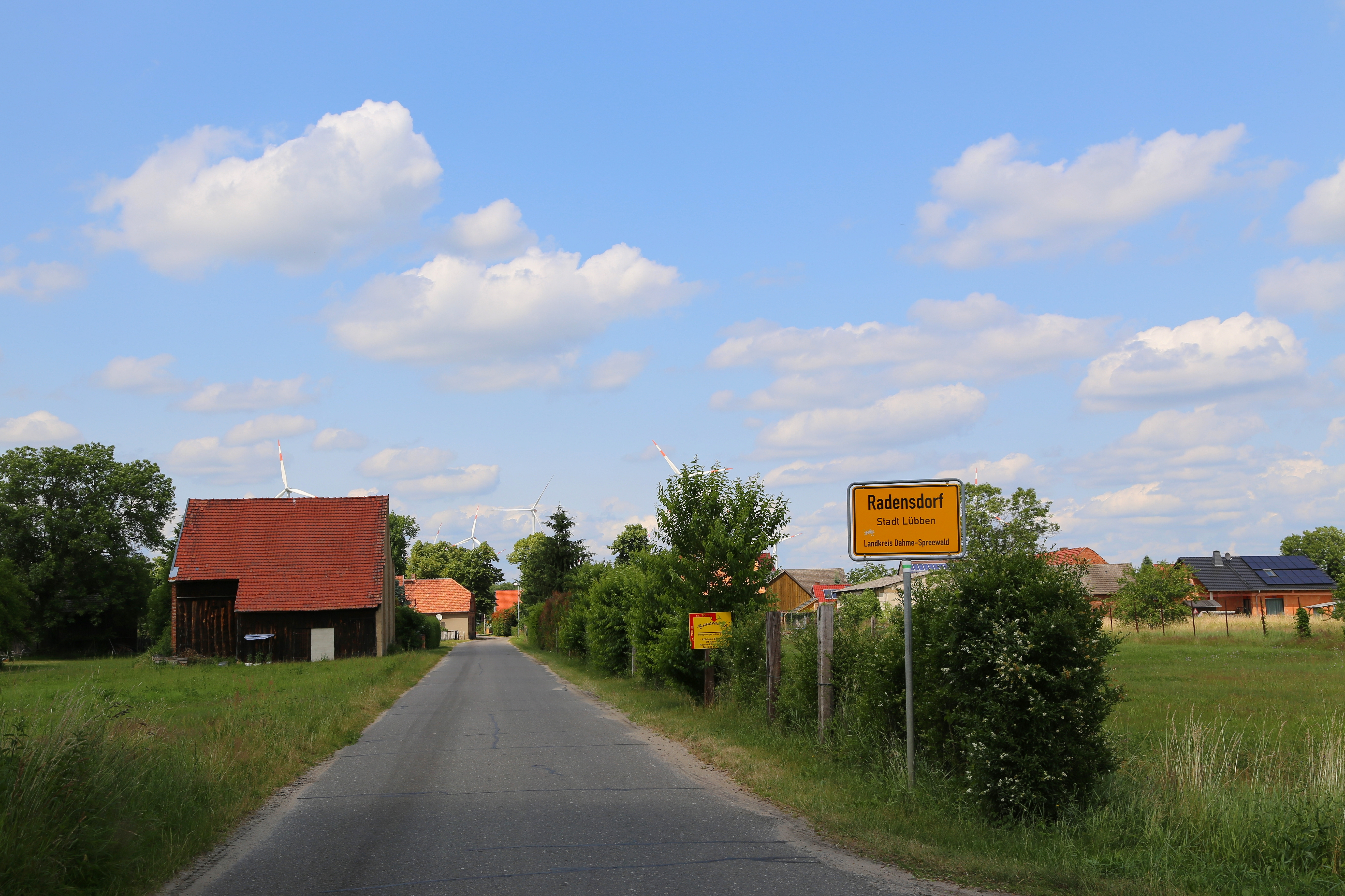 Entering Radensdorf, a city district of Lübben, Landkreis Dahme-Spreewald, Brandenburg, Germany.